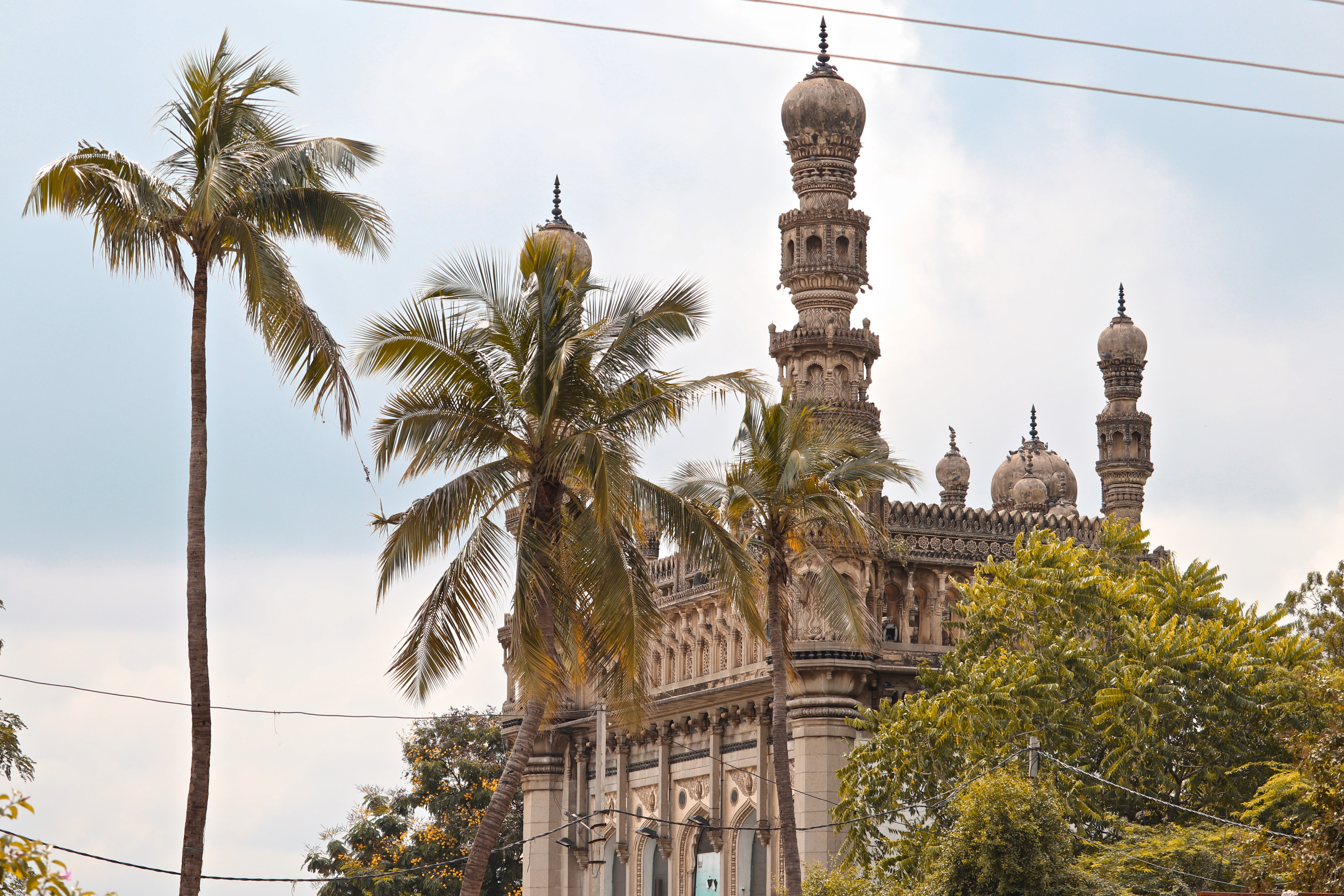 Unexplored architecture of Hussaini Alam, a locality in Hyderabad